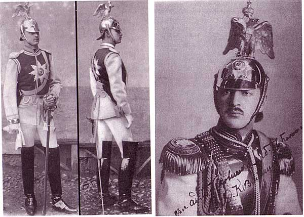 Picture of officers in the Imperial Chevalier Guard (Regiment)